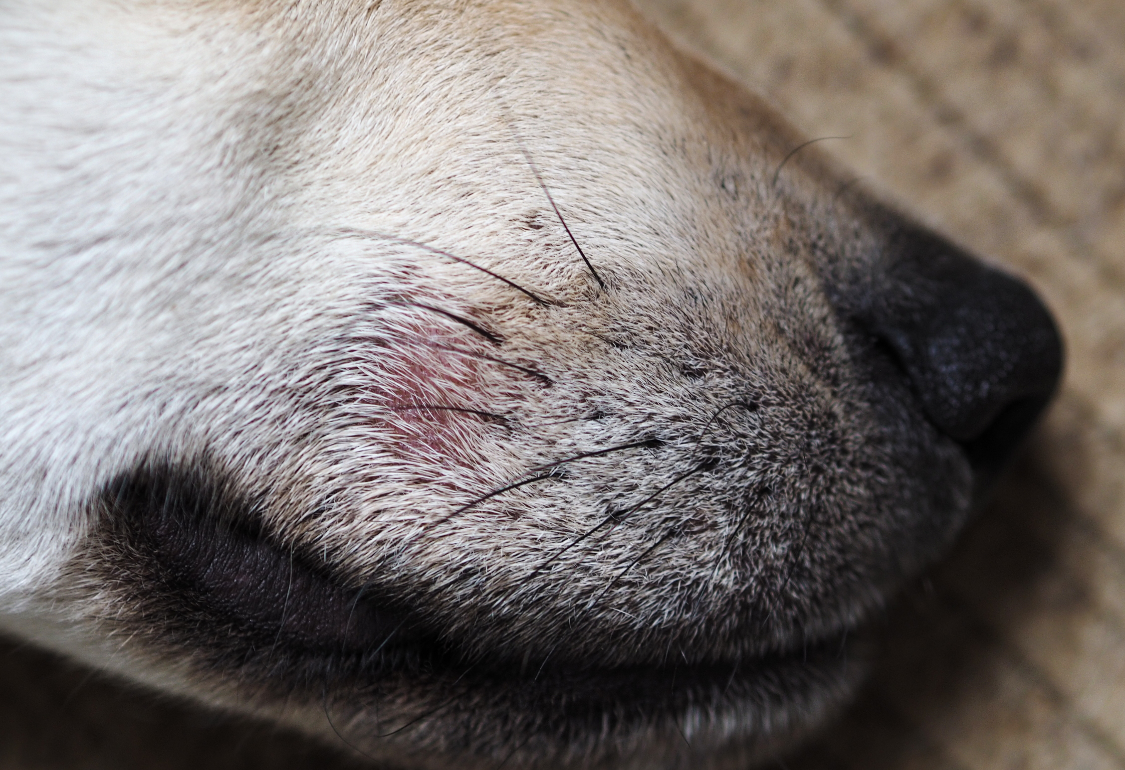 Locale demodicosis on the right upper lip of a male dog, age 18 months